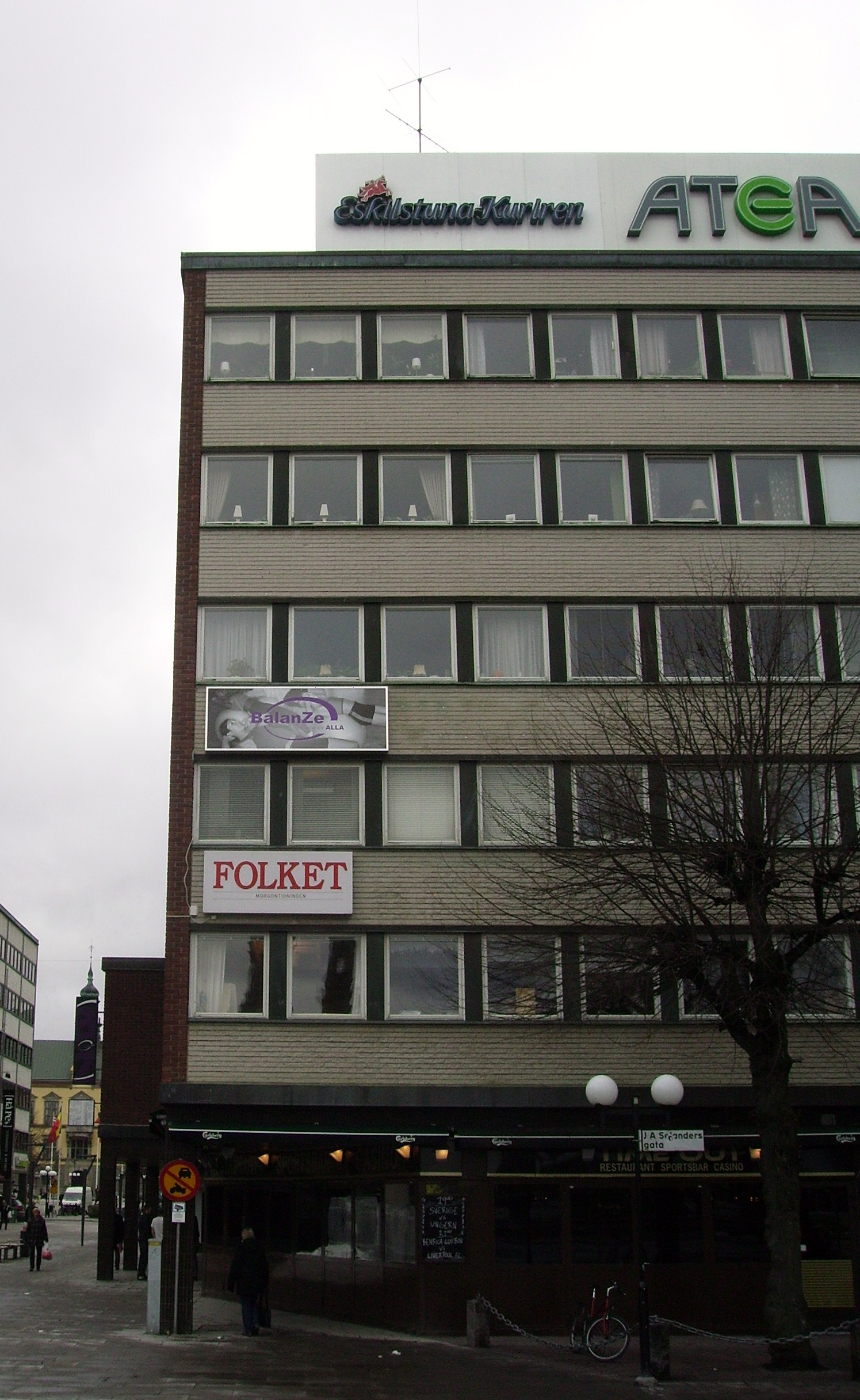 Picture of building belonging to Folket (newspaper) in Eskilstuna